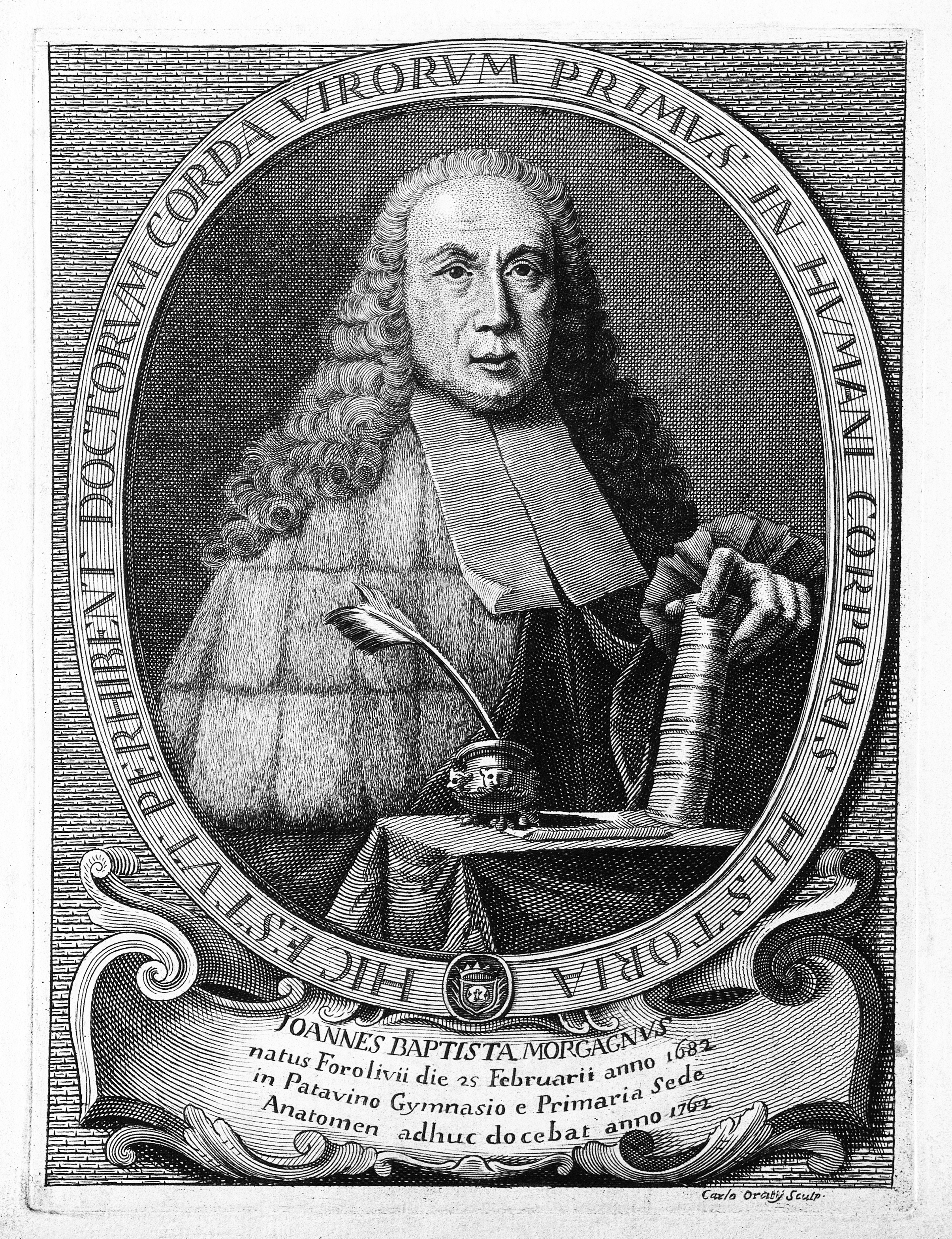 Portrait of Giovanni Battista Morgagni [1682 - 1771], Italian anatomist Iconographic Collections Keywords: portrait prints; engravings; Giovanni Battista Morgagni; C. Orazio